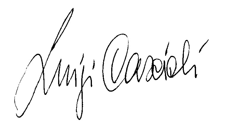 Luigi Cascioli's signature